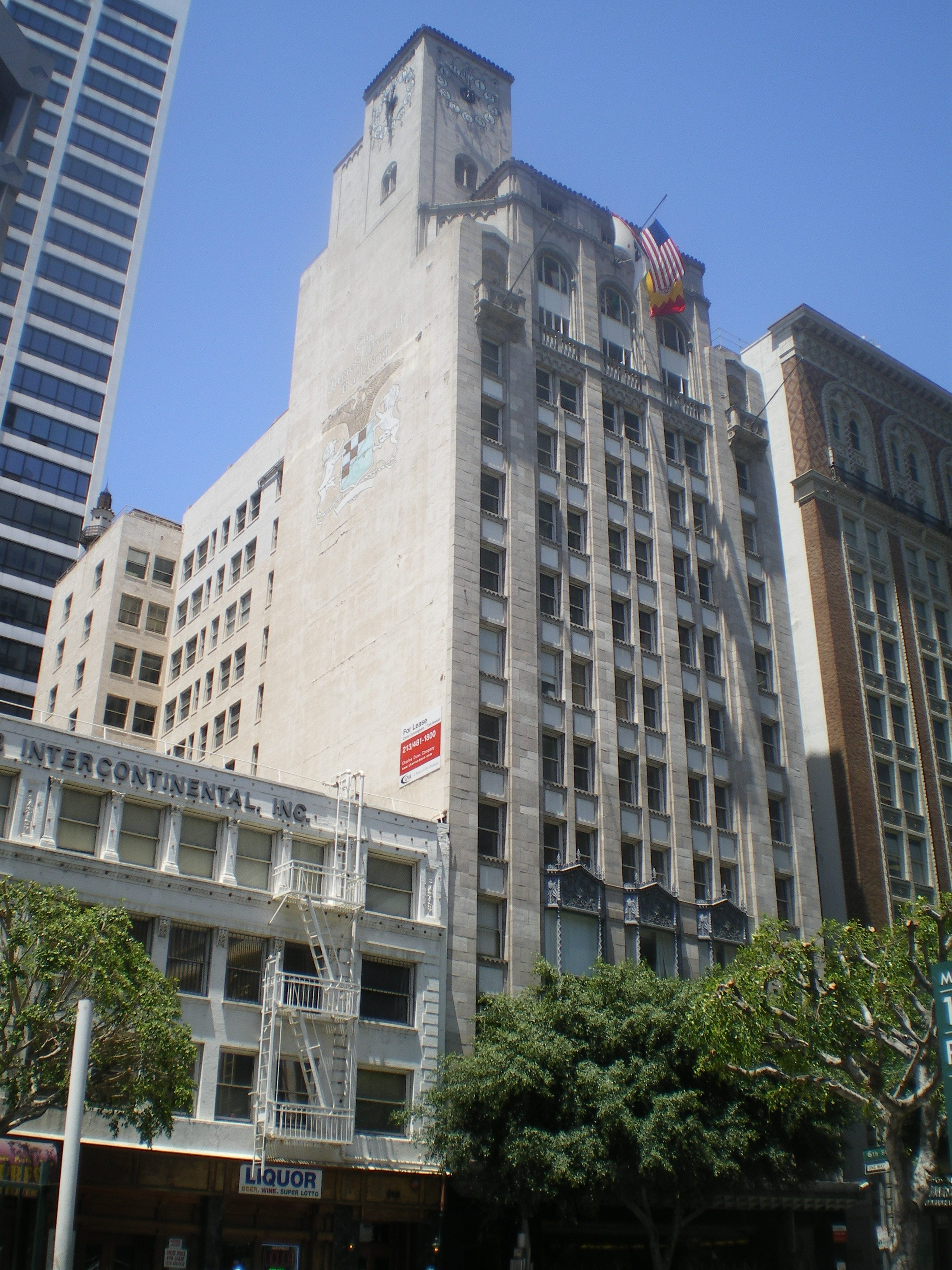 James Oviatt Building — 617 S. Olive Street, in Downtown Los Angeles, California. 1927 Art Deco building is a Los Angeles Historic-Cultural Monument, and on the National Register of Historic Places in Los Angeles.